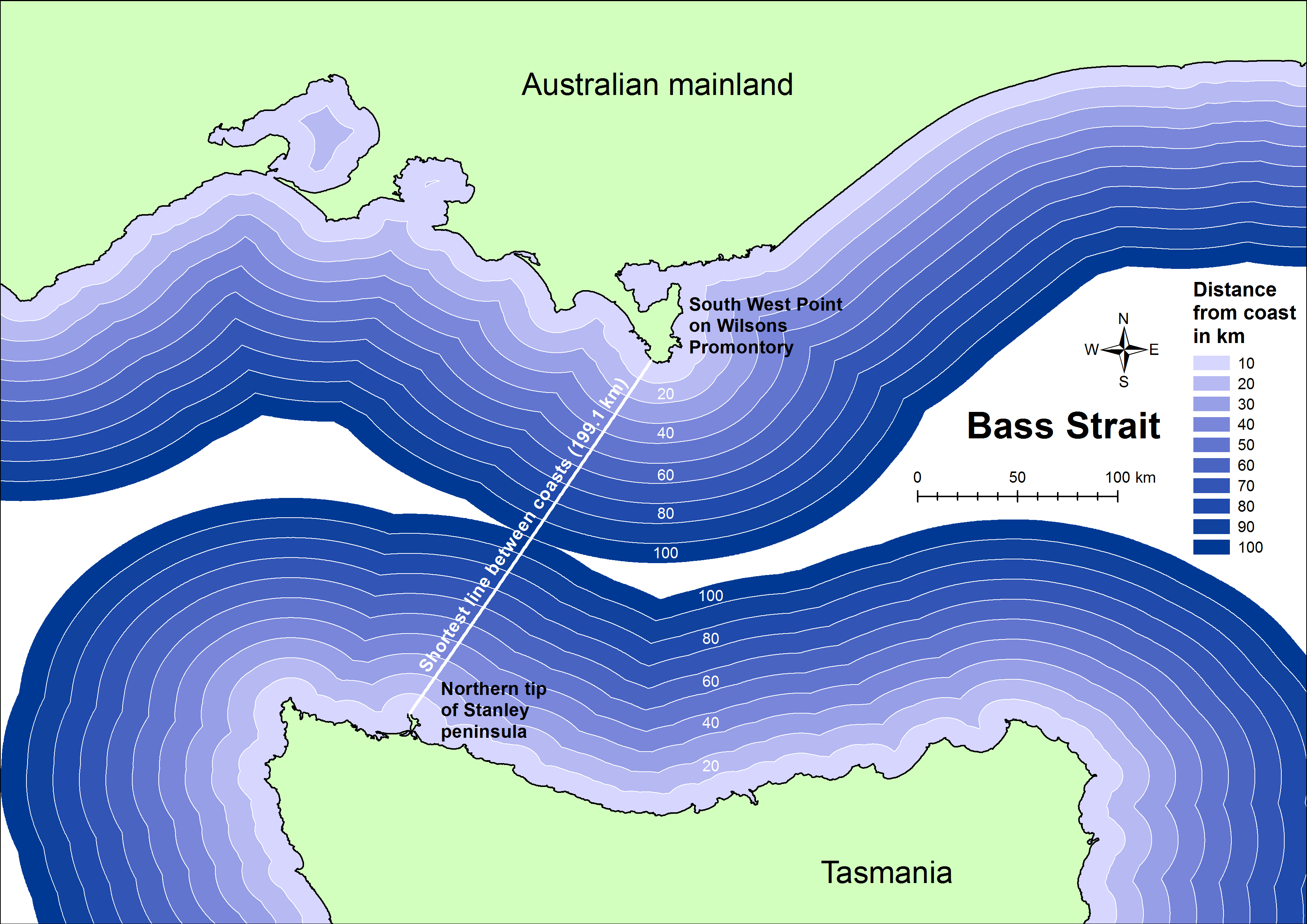 A map demonstrating the shortest distance between the coasts of Bass Strait, i.e. between the Australian and Tasmanian mainlands. Created using ESRI ArcMap 10.2. The two landing points are (determined with ArcMap's Near tool): -39.1258,146.34619 ("South West Point" on Wilsons Promontory) -40.71249,145.2605 (The unnamed northern tip of the peninsula that also hosts Stanley) The distance between the two points is 199.126 kilometres (ArcMap Near tool calculation, online reference). Coastline data: Geoscience Australia's GEODATA COAST 100K 2004 dataset. 1:100,000 scale. Released under Creative Commons Attribution 4.0 International Licence.